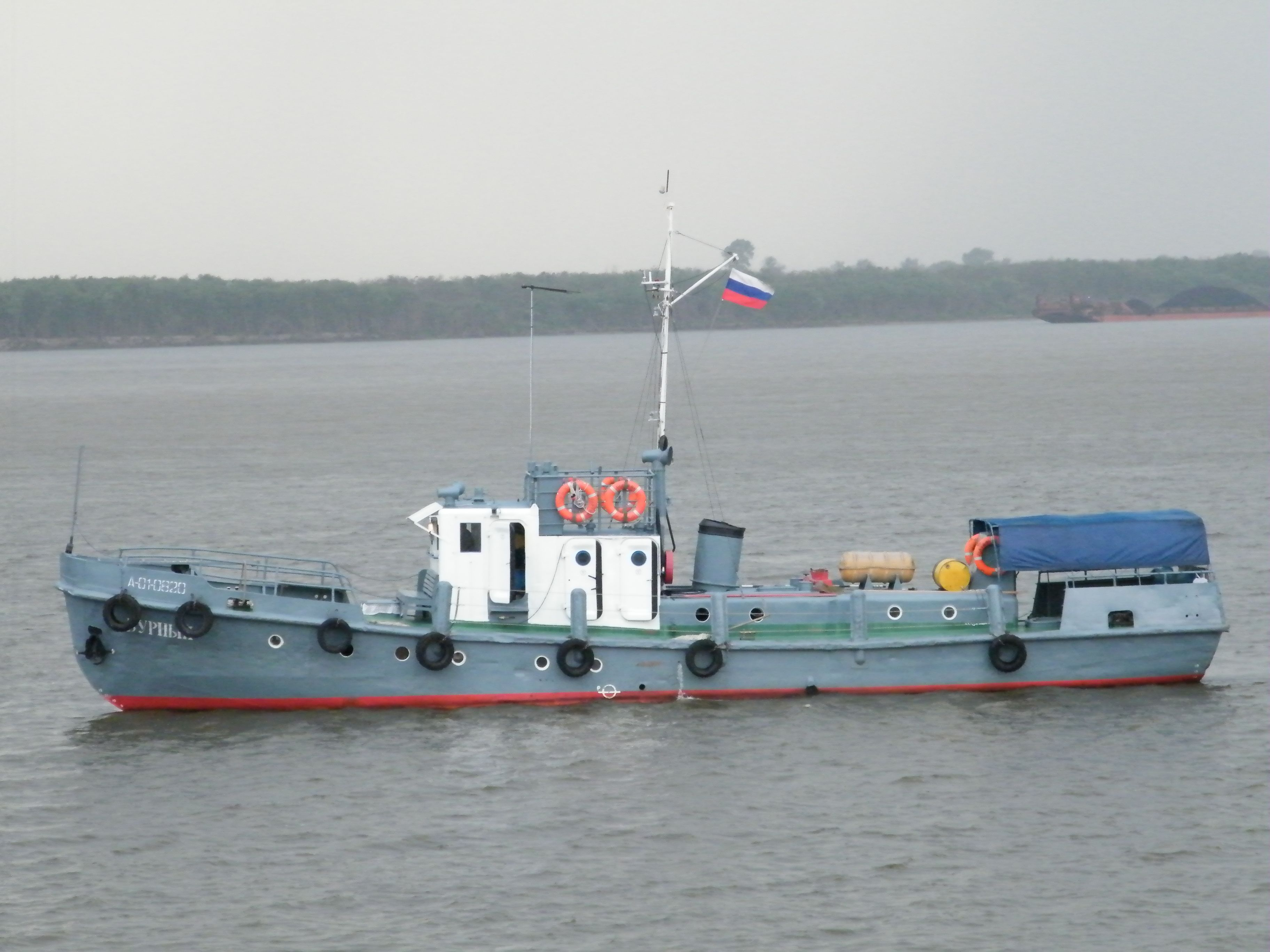 Yaroslavets class tugboat